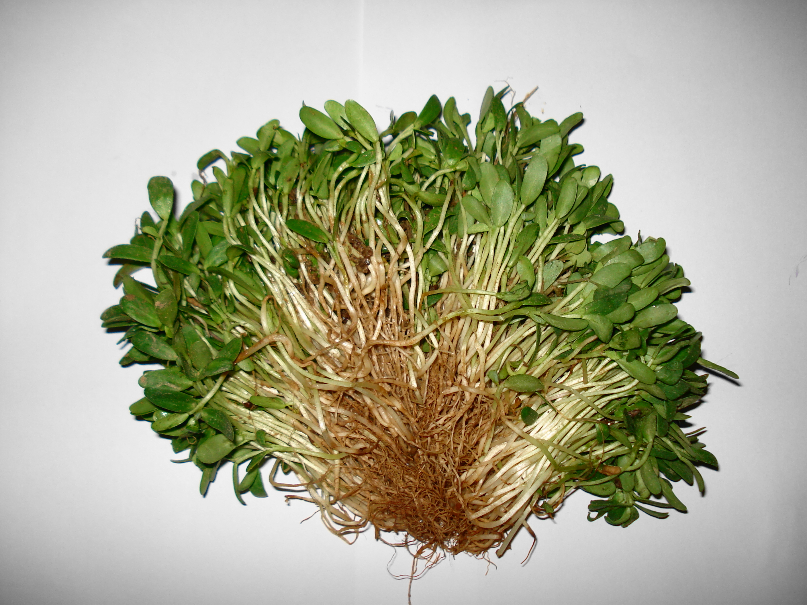 Q Methi